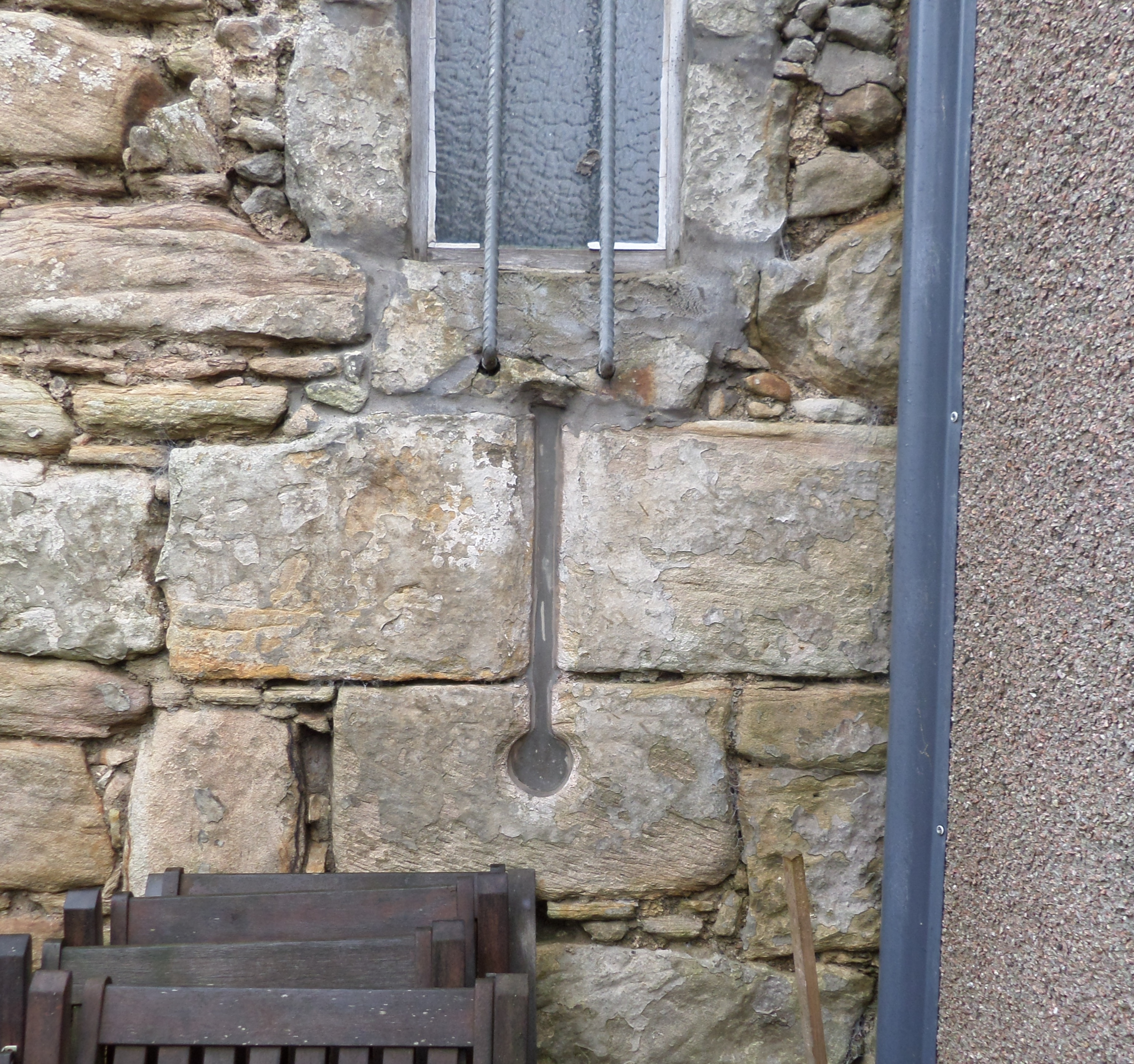 Kersland Castle embrasure, Dalry, North Ayrshire, Scotland. Used for arrows and guns.